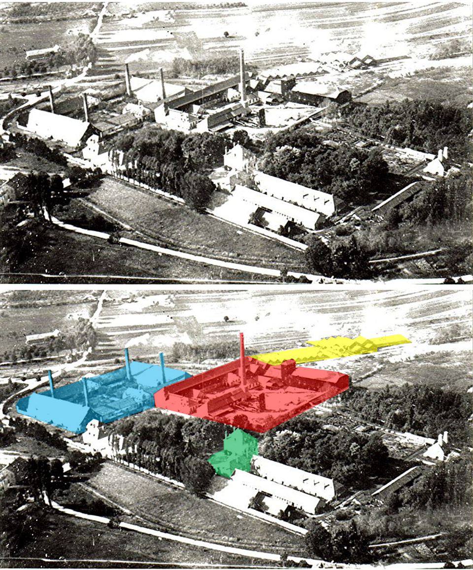 Aerial view of Gouhenans factories.